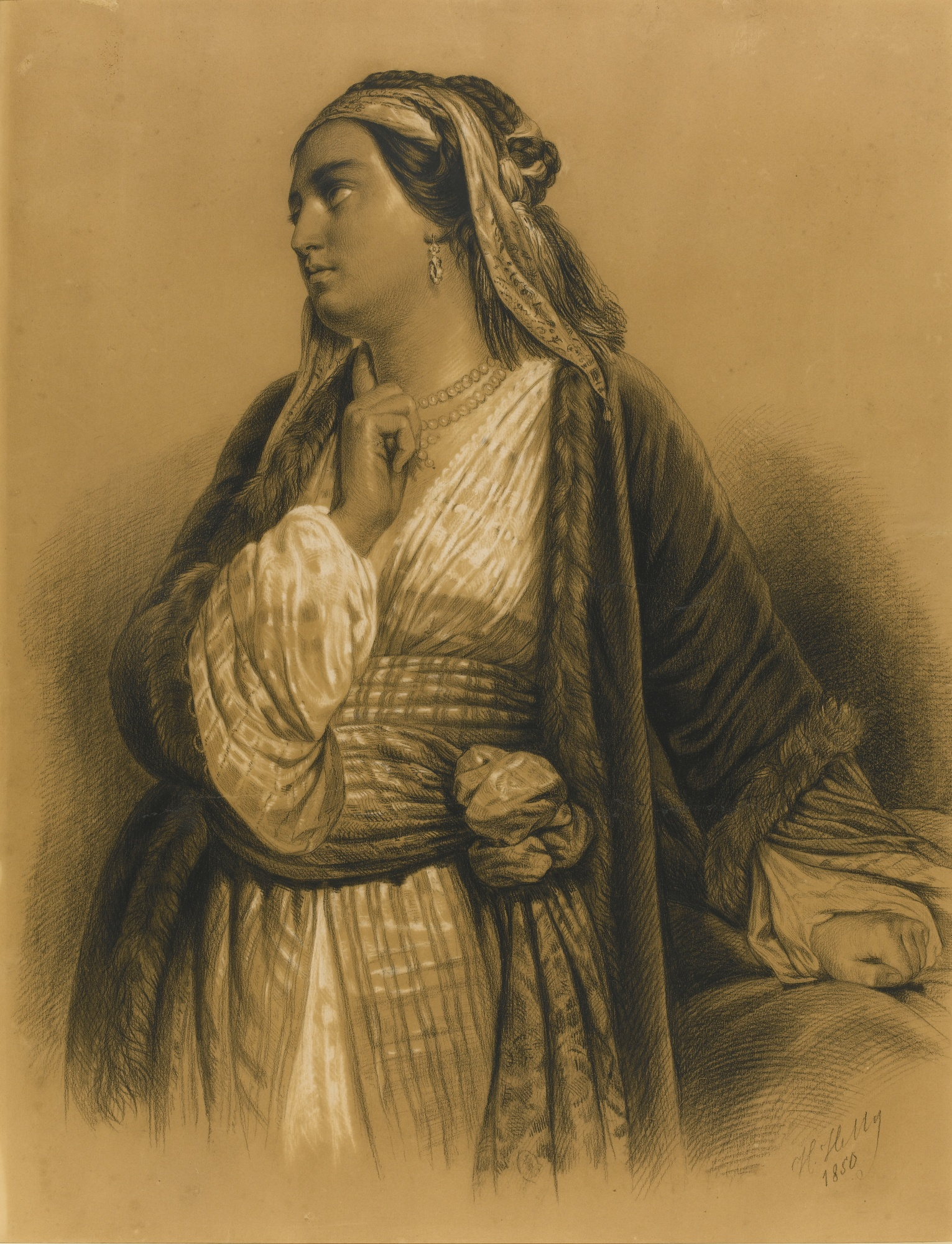 Portrait of Kira Vassiliki. Charcoal on paper, heightened with white, signed and dated lower right.